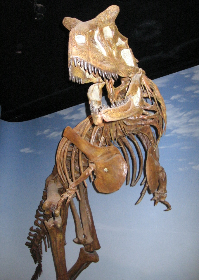 Carnotaurus skeleton, Natural History Museum